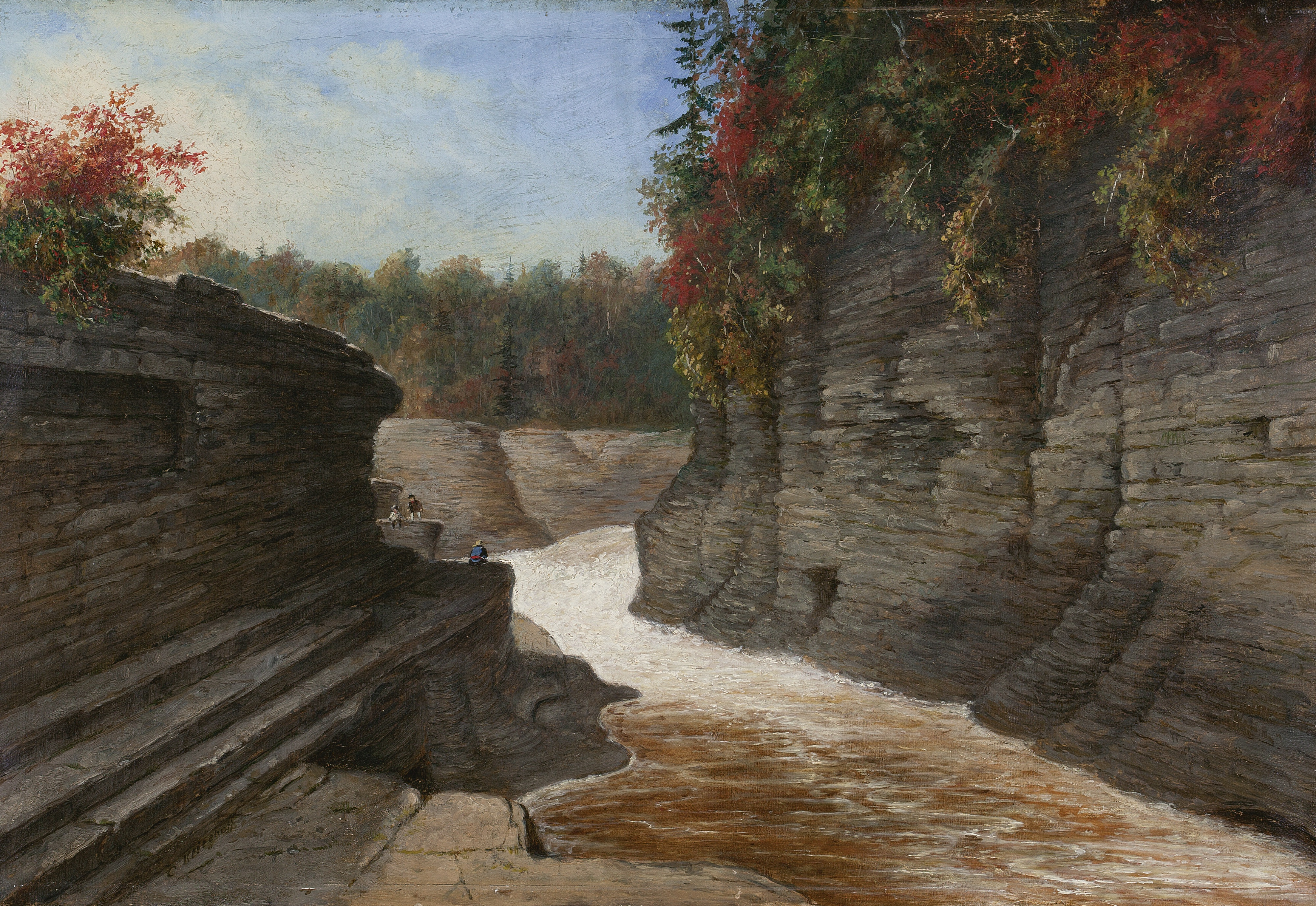 Painting by Cornelius Krieghoff showing the Montmorency River, near Québec. The river flows through stratified grey limestone.